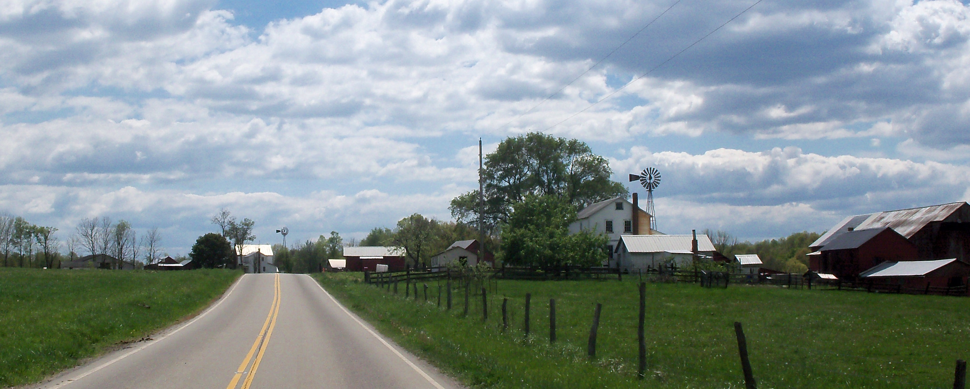 Looking south along Ohio State Route 258 in Guernsey County, Ohio, Amish families have farms on each side of the road.